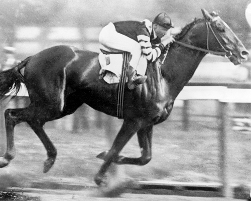 Man o' War winning the 1920 Belmont Stakes, ridden by Clarence Kummer